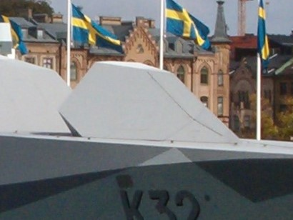 HMS Helsingborg 2 cropped